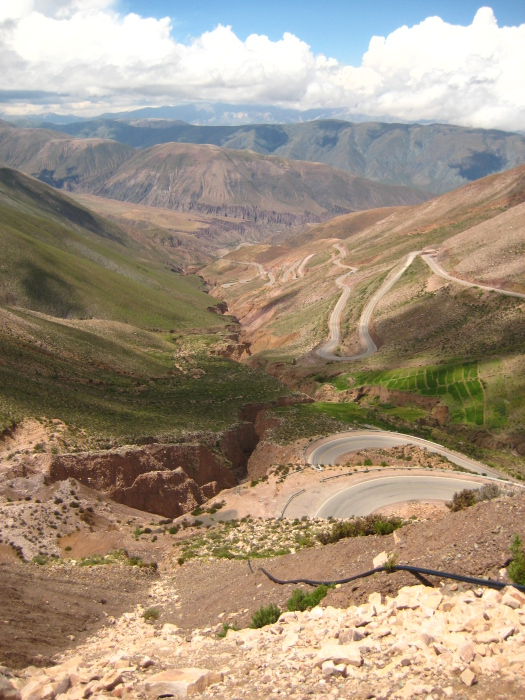 Cuesta del Lipán (Jujuy-Argentine)